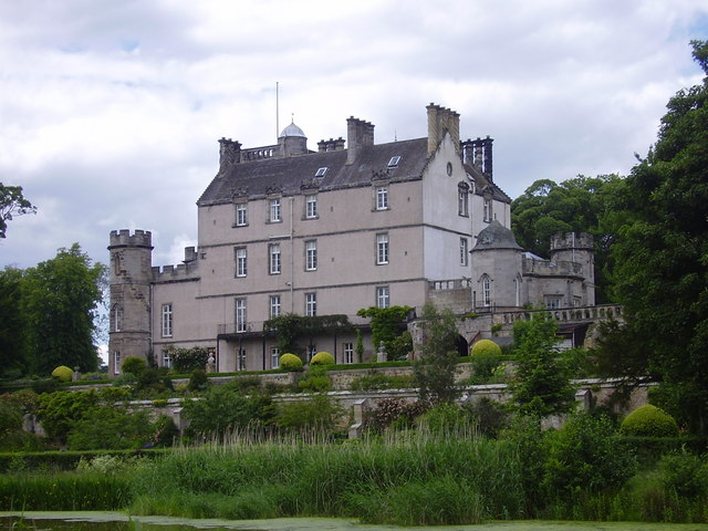 Winton House, East Lothian